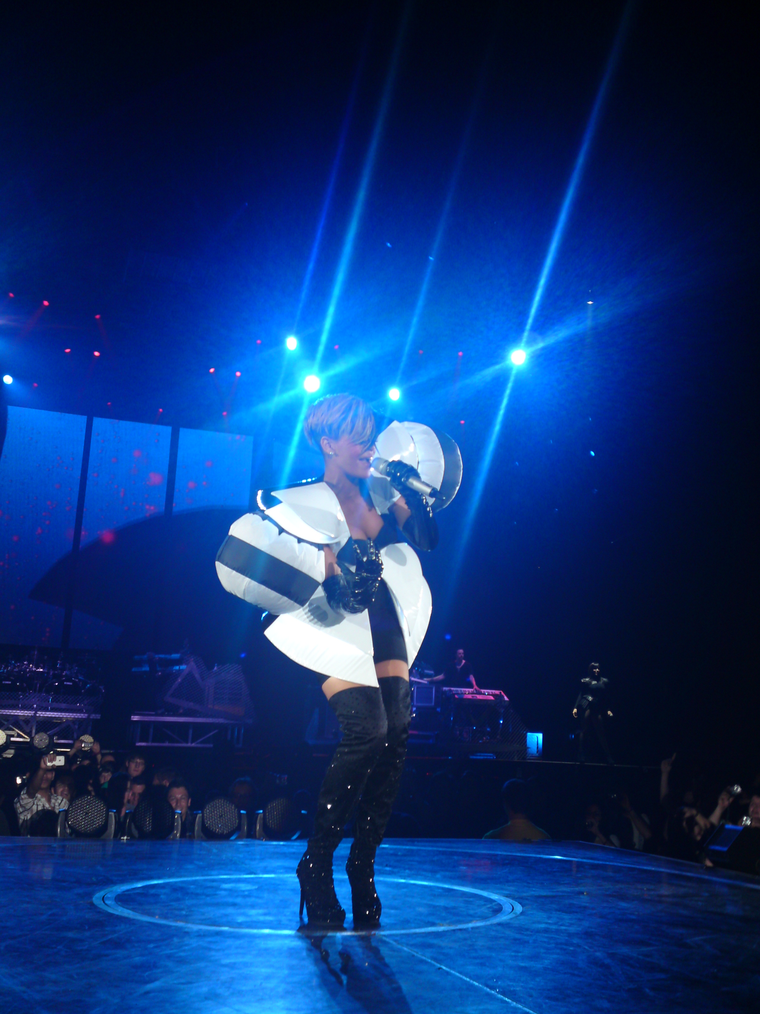 Rihanna performs "Umbrella" at her Last Girl on Earth Tour in Zurich.